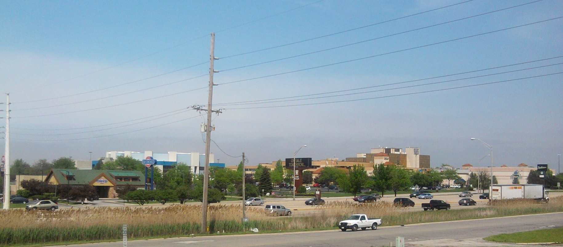 Merrillville Skyline looking northeast toward US Route 30